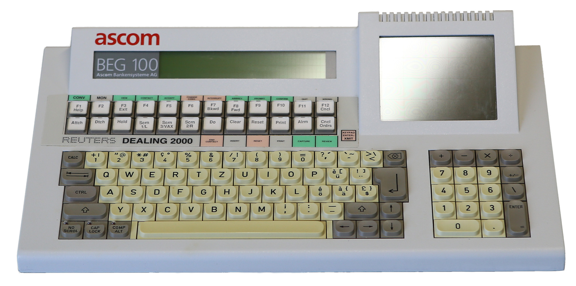 LCD function keys of a an Ascom Bankensysteme AG keyboard for the Reuters Dealing 2000 financial information and trading system